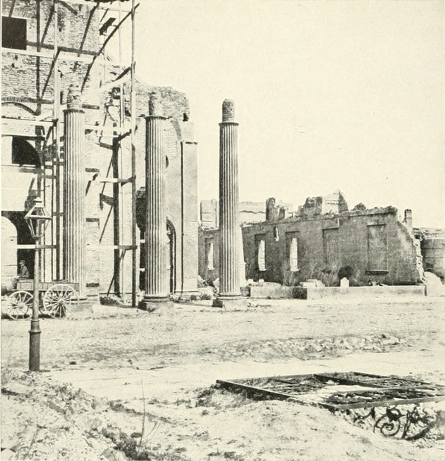 "Remains of the Circular Church and 'Secession Hall' where South Carolina decided to leave the Union".